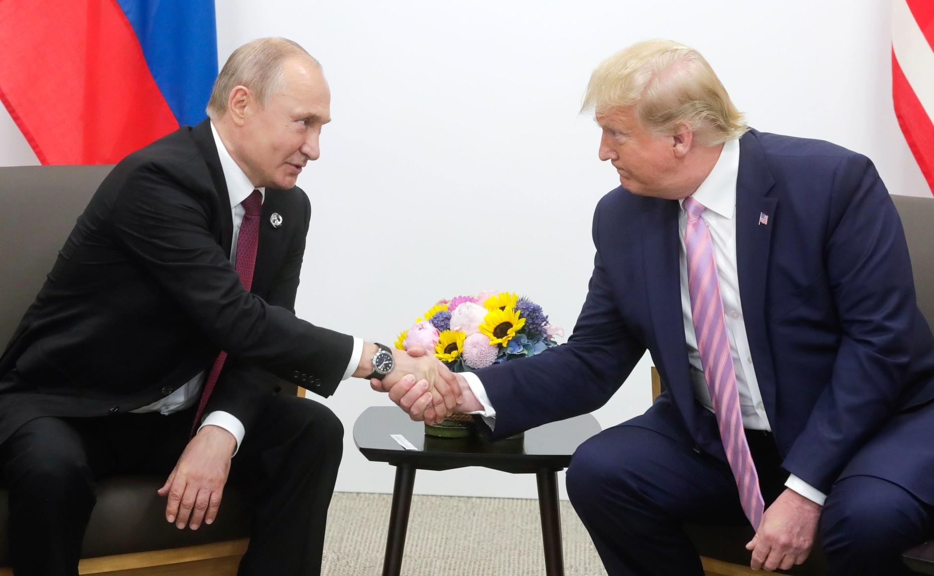 With President of the United States Donald Trump.